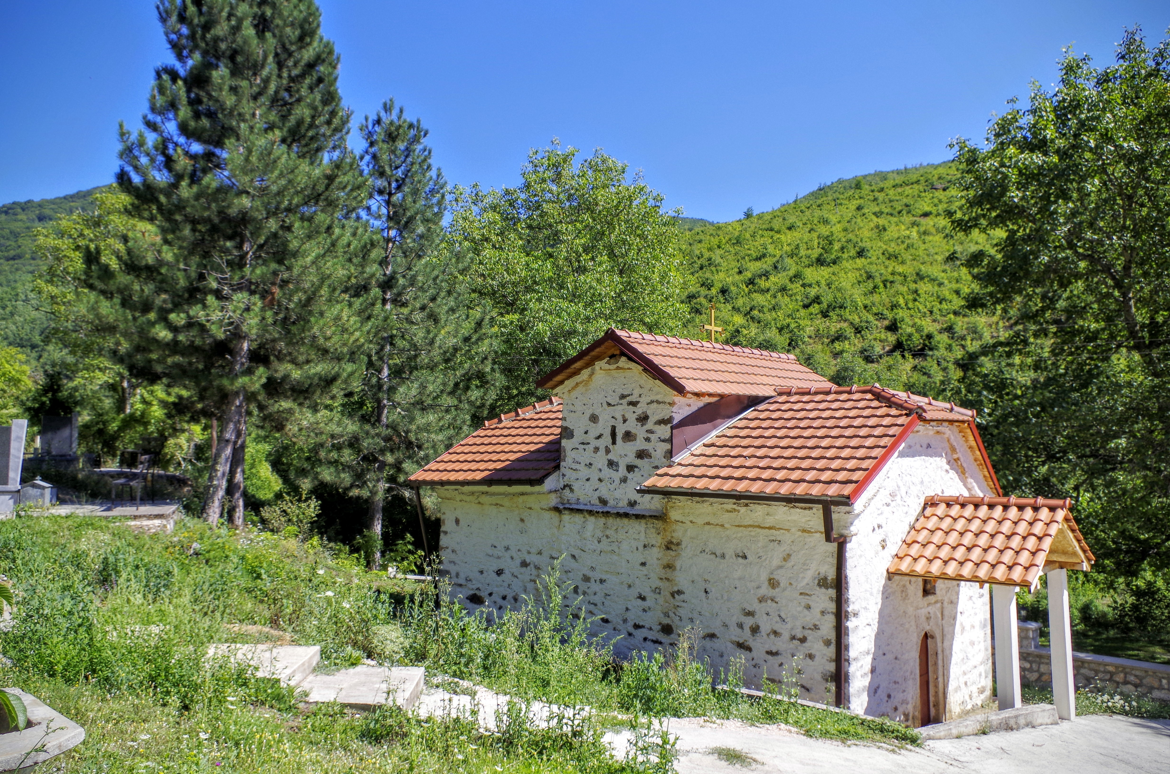 View of the St. George's Church in the village Sošani